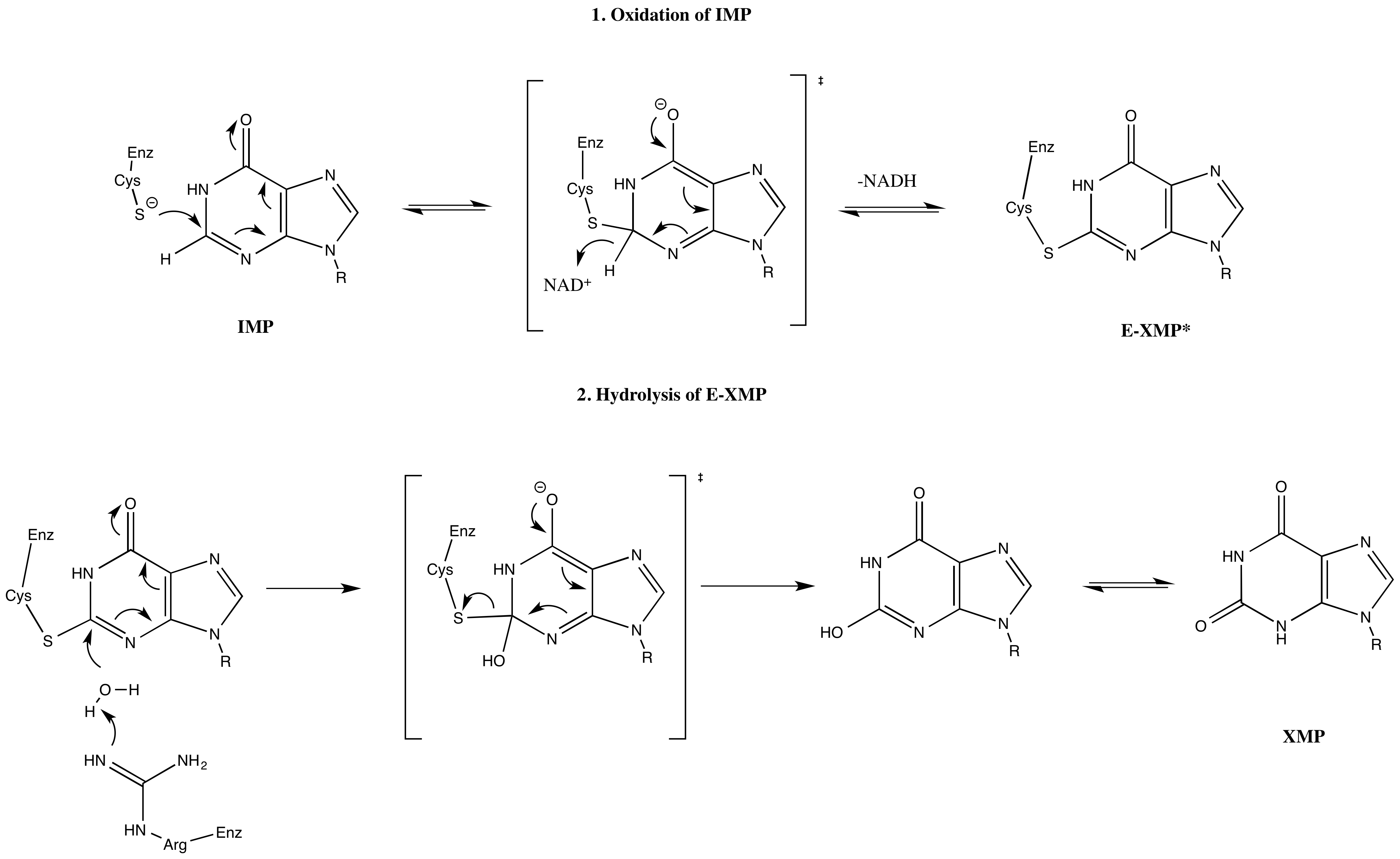 General mechanism used by the enzyme Inosine 5-monophosphate dehydrogenase to convert IMP to XMP. Only the purine portion of each molecule is shown.